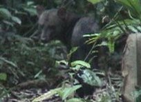 photo of a rare Short-eared Dog (Atelocynus microtis) taken at Refugio Amazonas in Peru.